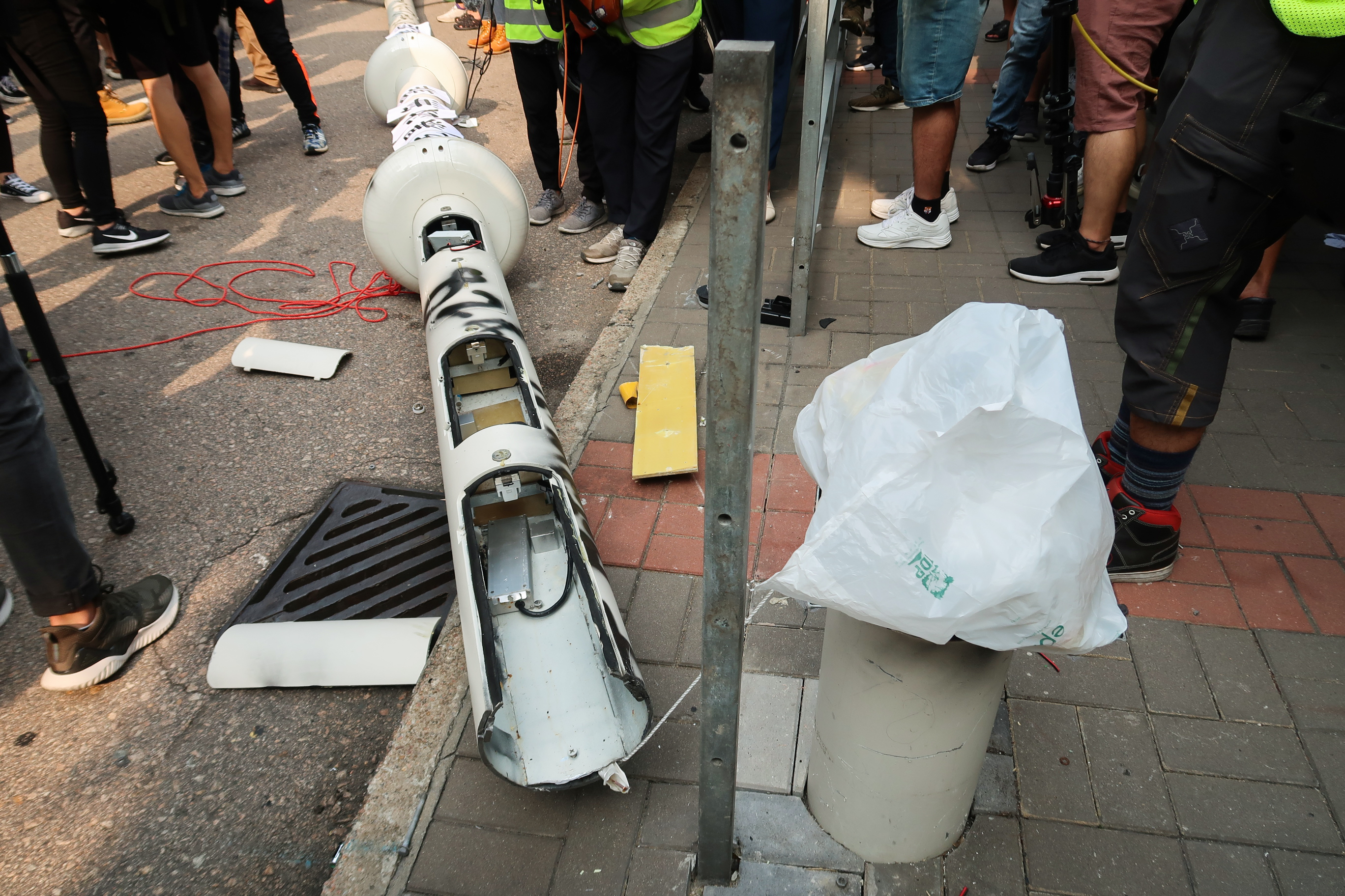 Sheung Yuet Road lamppost after protesters destroy